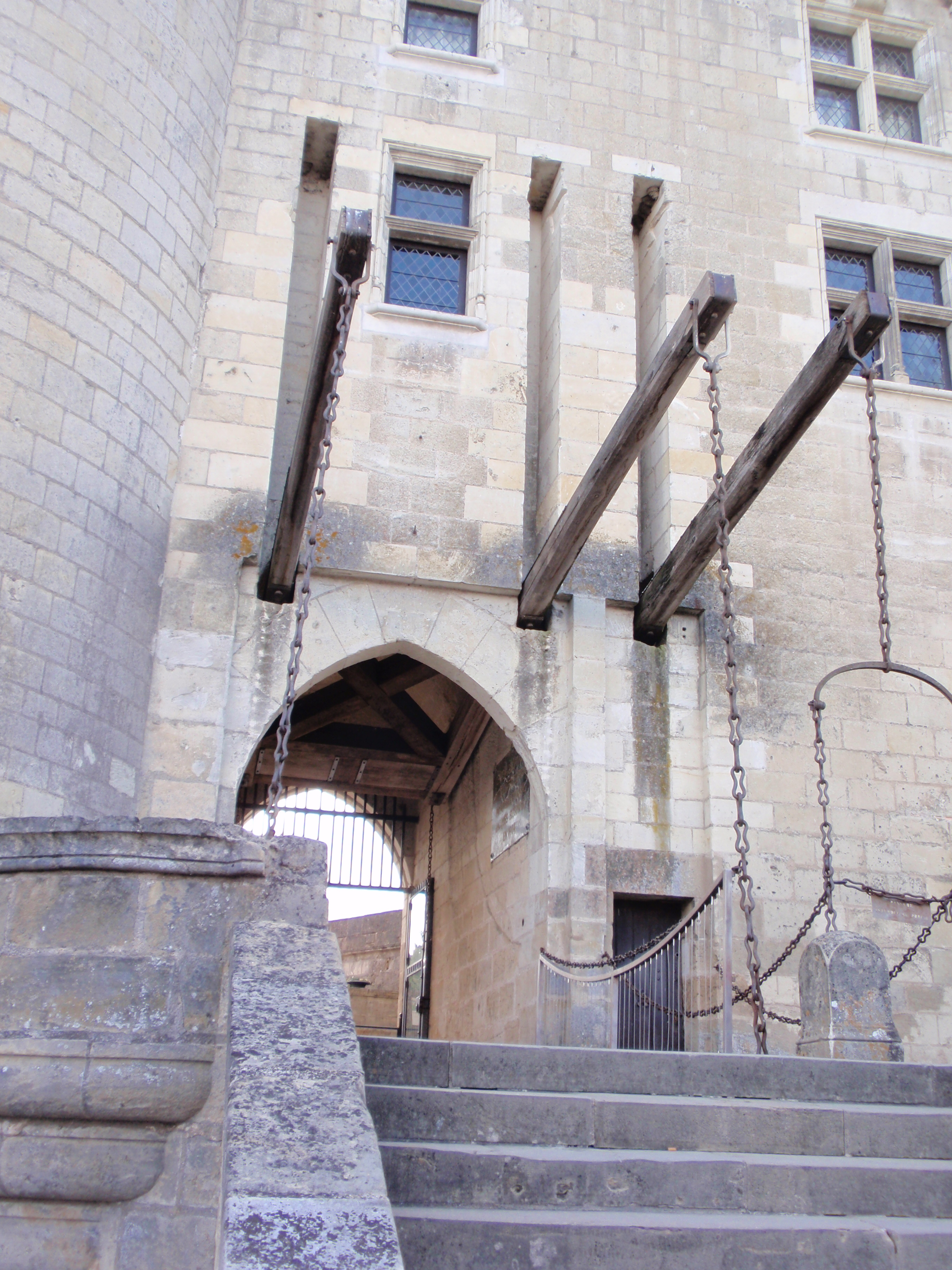 Entrence gate of the Château de Langeais in the Loire Valley